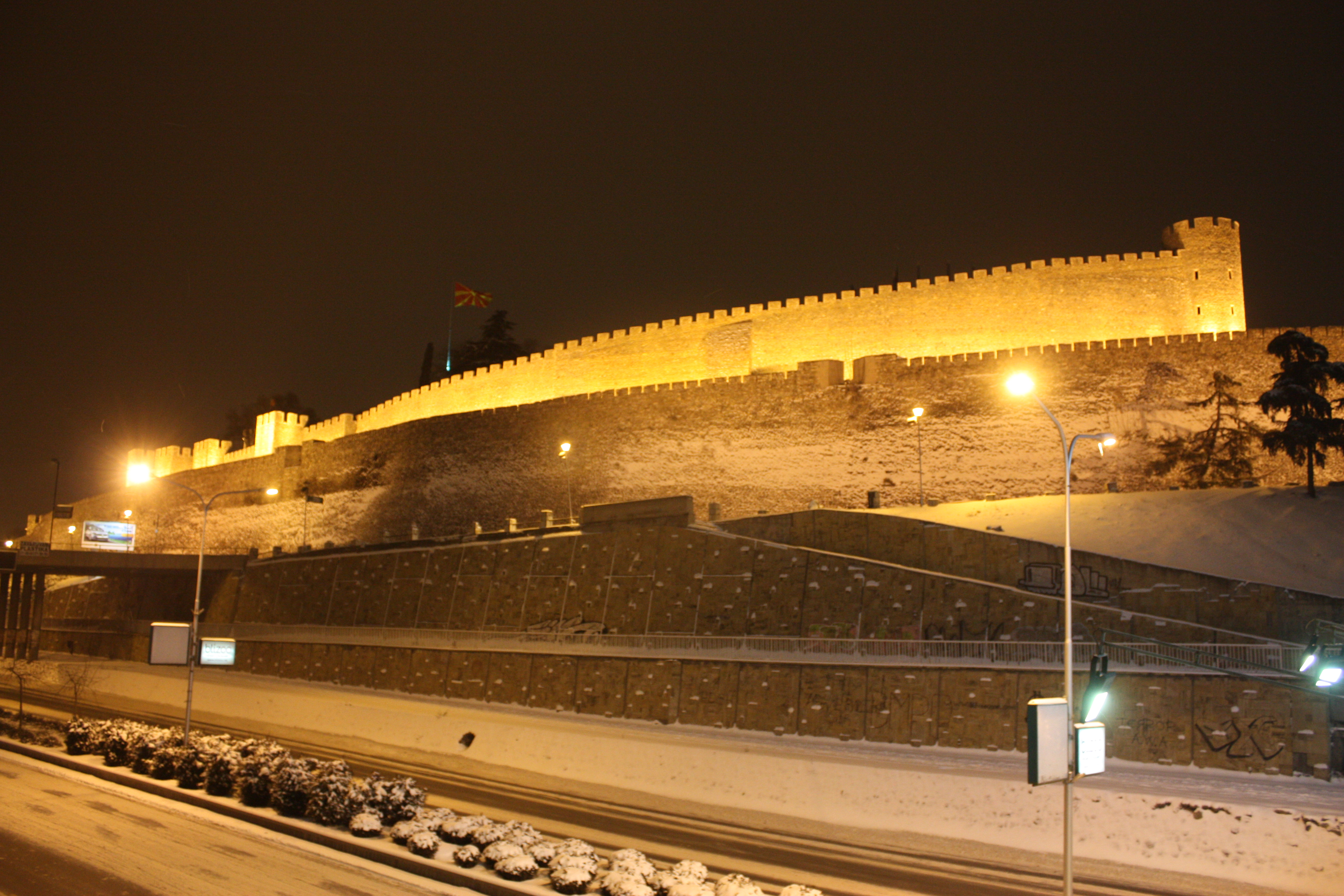 Skopje Fortress, Macedonia